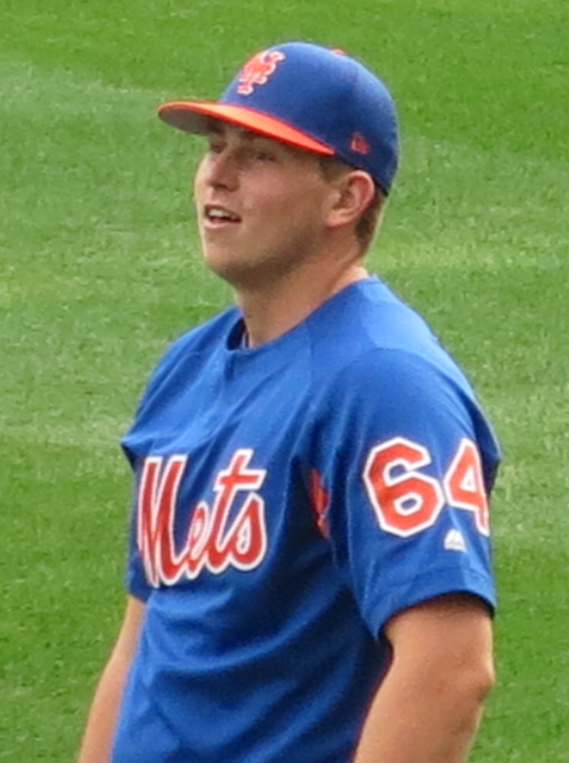 Chris Flexen on August 6, 2017